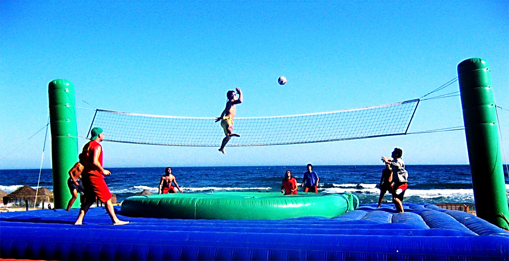 I made this picture myself during the bossaball tour in Marbella Spain in July 2006.